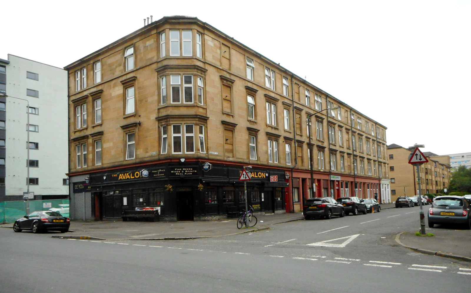 The Avalon Bar